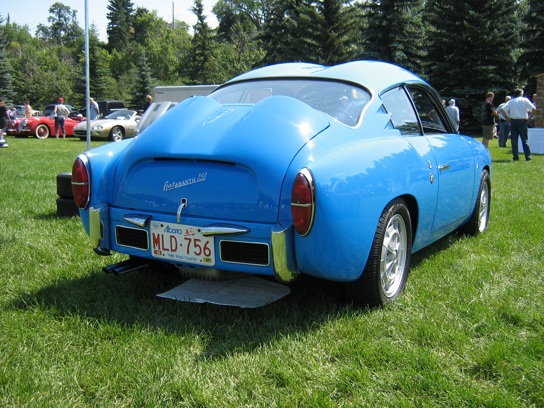 1959 Fiat Abarth 750 GT Zagato Double Bubble - with an aluminum body by Zagato its based a Fiat 600 platform modified by Abarth. Weight is only 1,180 lbs.